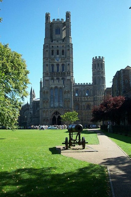 Ely Cathedral With a non-ecclesiastical cannon in the foreground